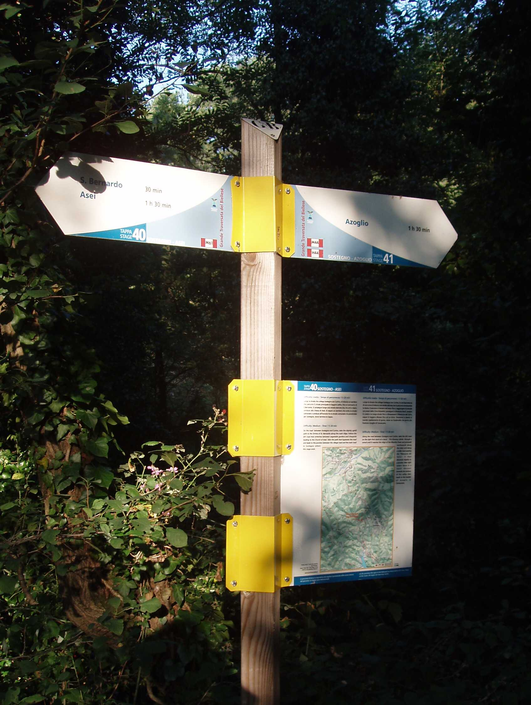 Grande traversata del Biellese